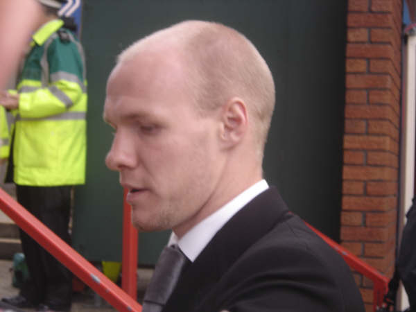 Andy Johnson signing autographs post match at Selhurst Park after Crystal Palace were 2-0 winners over Burnley on 22nd October 2005, joe szweds birth date